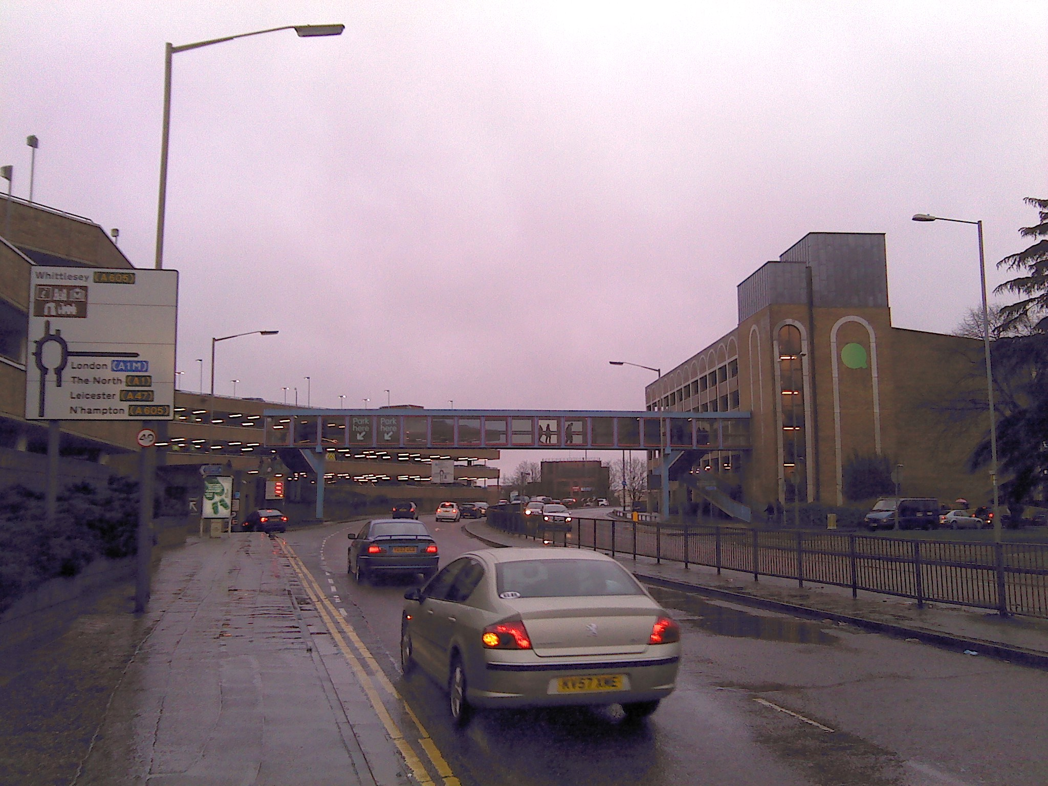 The A15 passing Queensgate Shopping Centre.